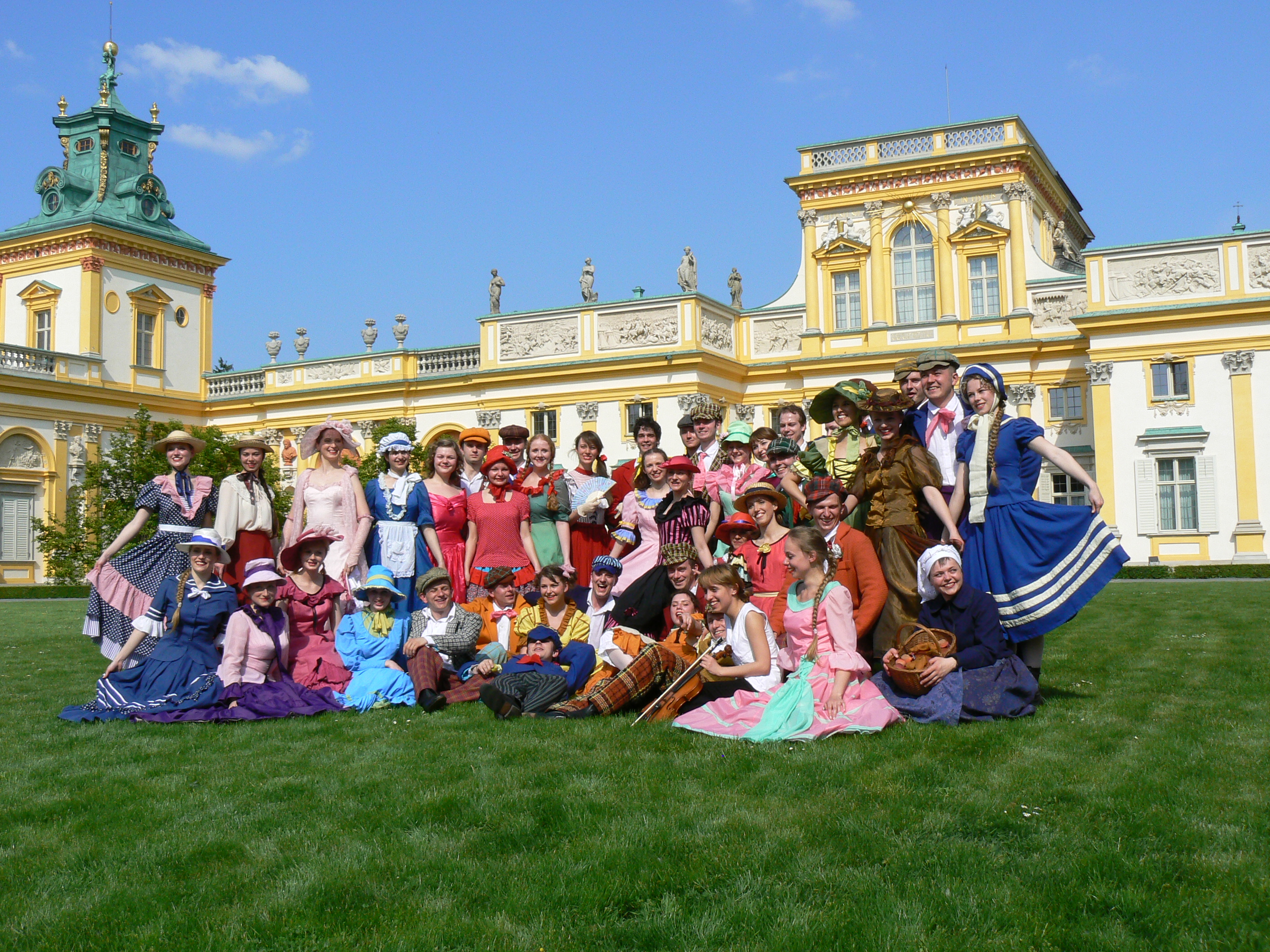 Song and dance group of Warsaw University of Technology. Photo made after concert in Wilanowski Park in 2007, members are in native costumes of Warsaw commoners at the turn of the 19th and 20th centuries